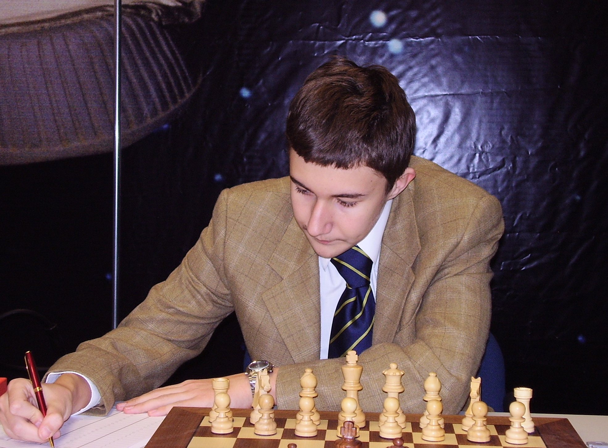 S. Karjakin at Corus tournament, January 2006. Own photo